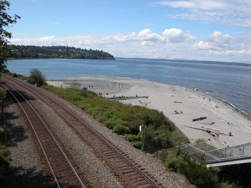 The Puget Sound beach at Carkeek Park, Seattle, Washington, USA. Photo taken from the pedestrian overpass over the BNSF railroad tracks.